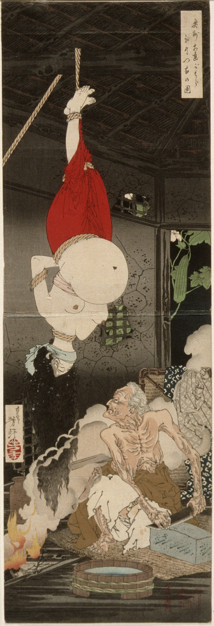 Japan, 1885 Alternate Title: Oshu Adachigahara Hitotsuya no zu Prints; woodcuts Diptych; color woodblock prints Image: 28 3/16 x 9 1/2 in. (71.6 x 24.1 cm); Sheet: 29 5/16 x 9 1/2 in. (74.4 x 24.1 cm) Herbert R. Cole Collection (M.84.31.138a-b) Japanese Art